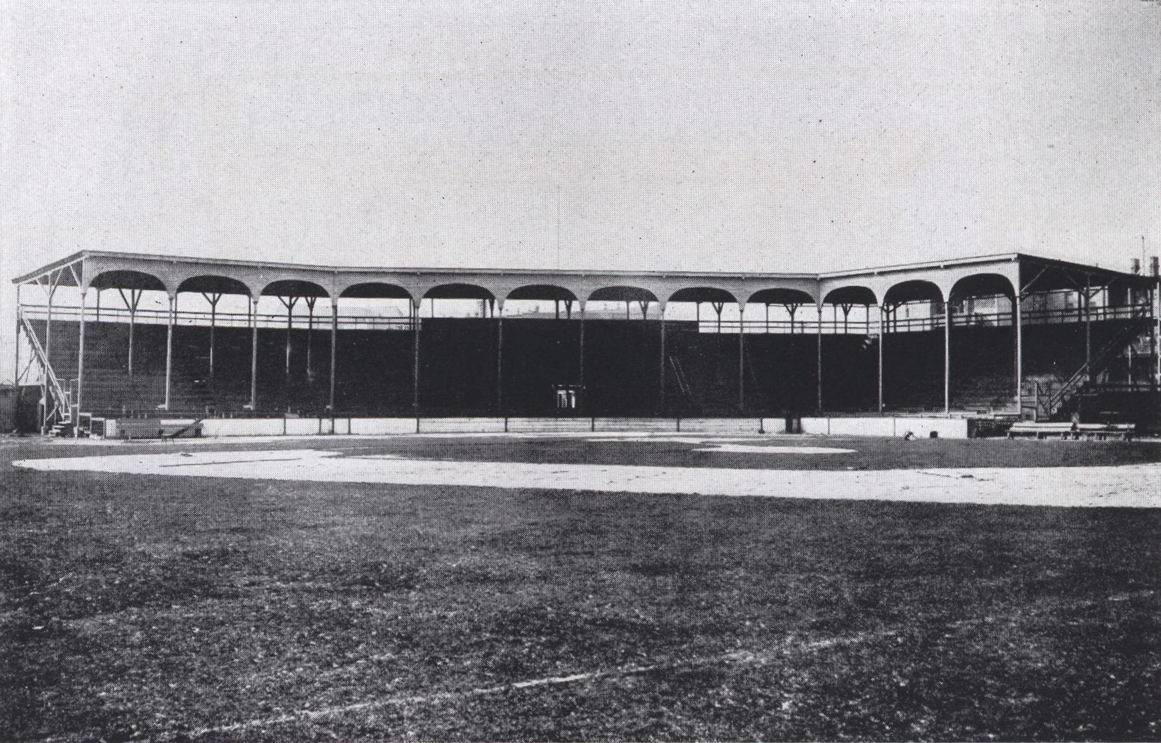 Captioned "Gunther's Park, Chicago"